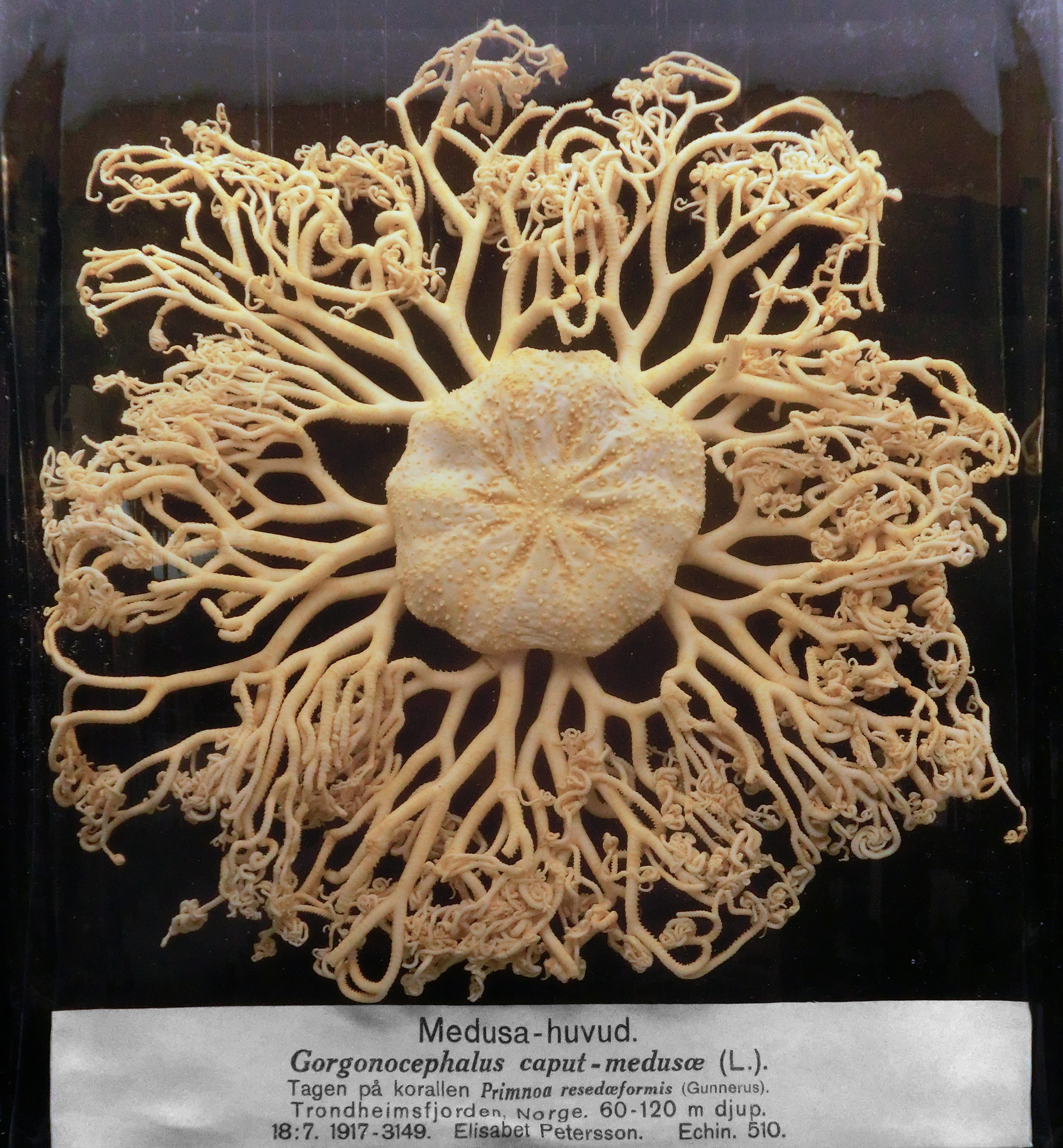 Gorgonocephalus caputmedusae from Trondheimsfjorden at Göteborgs Naturhistoriska Museum, Göteborg, Sweden.